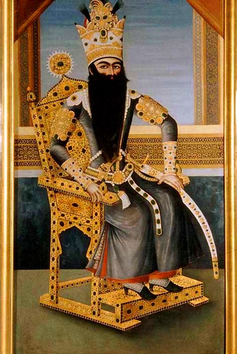 Fath Ali Shah (Fat′h Ali Shah Qajar), Louvre